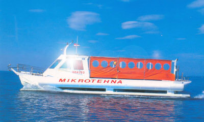 Foto of hidroairy ship